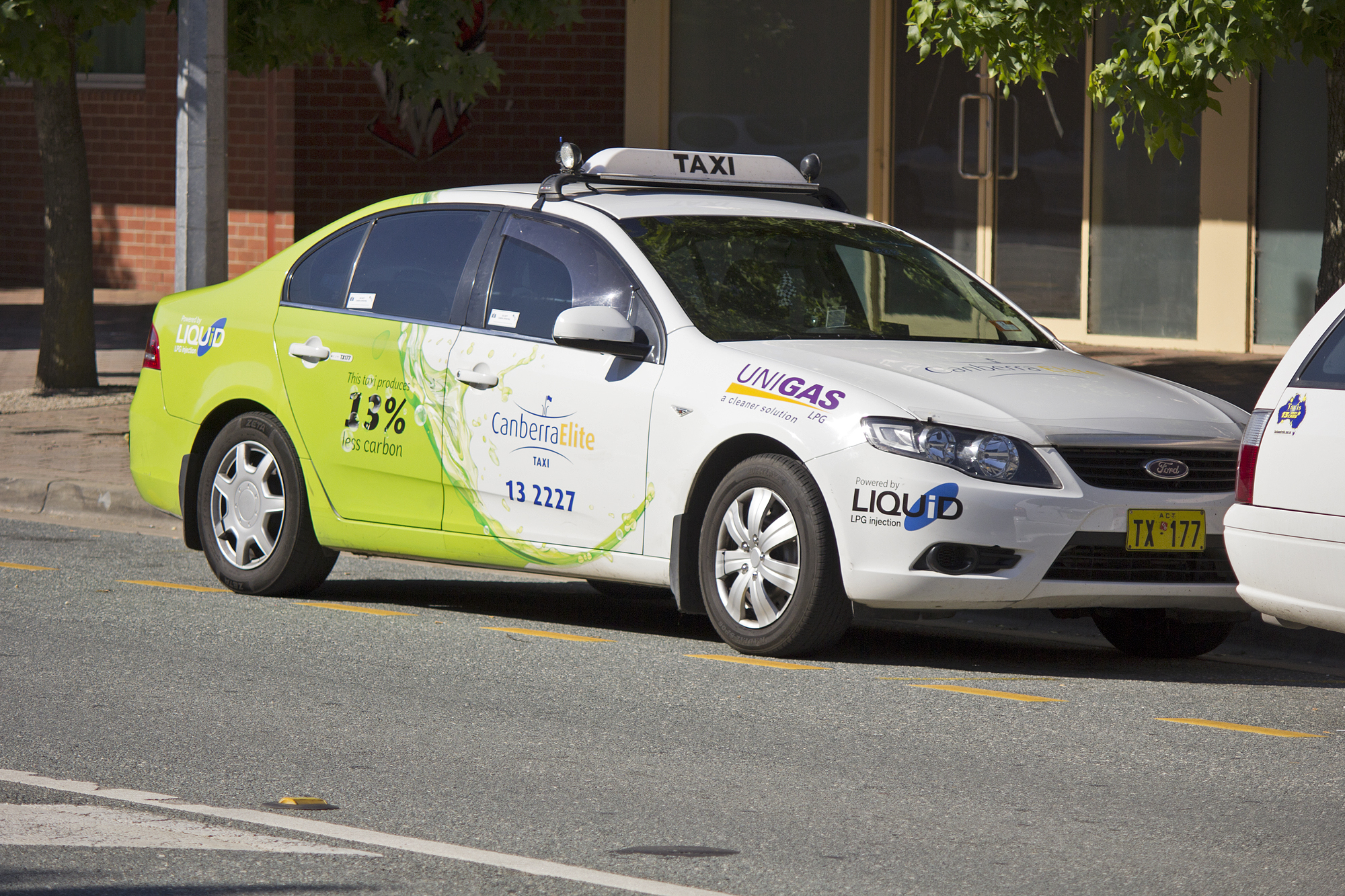 Ford FG Falcon running on LPG, operated by Canberra Elite Taxi, photographed in Tuggeranong Town Centre.